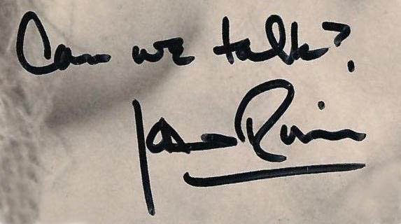 Scan of Joan Rivers' autograph with her famous catch phrase "Can we talk?"